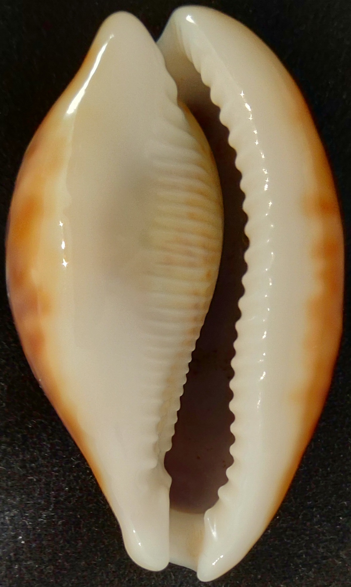 Cypraea Pantherina Funebralis Front